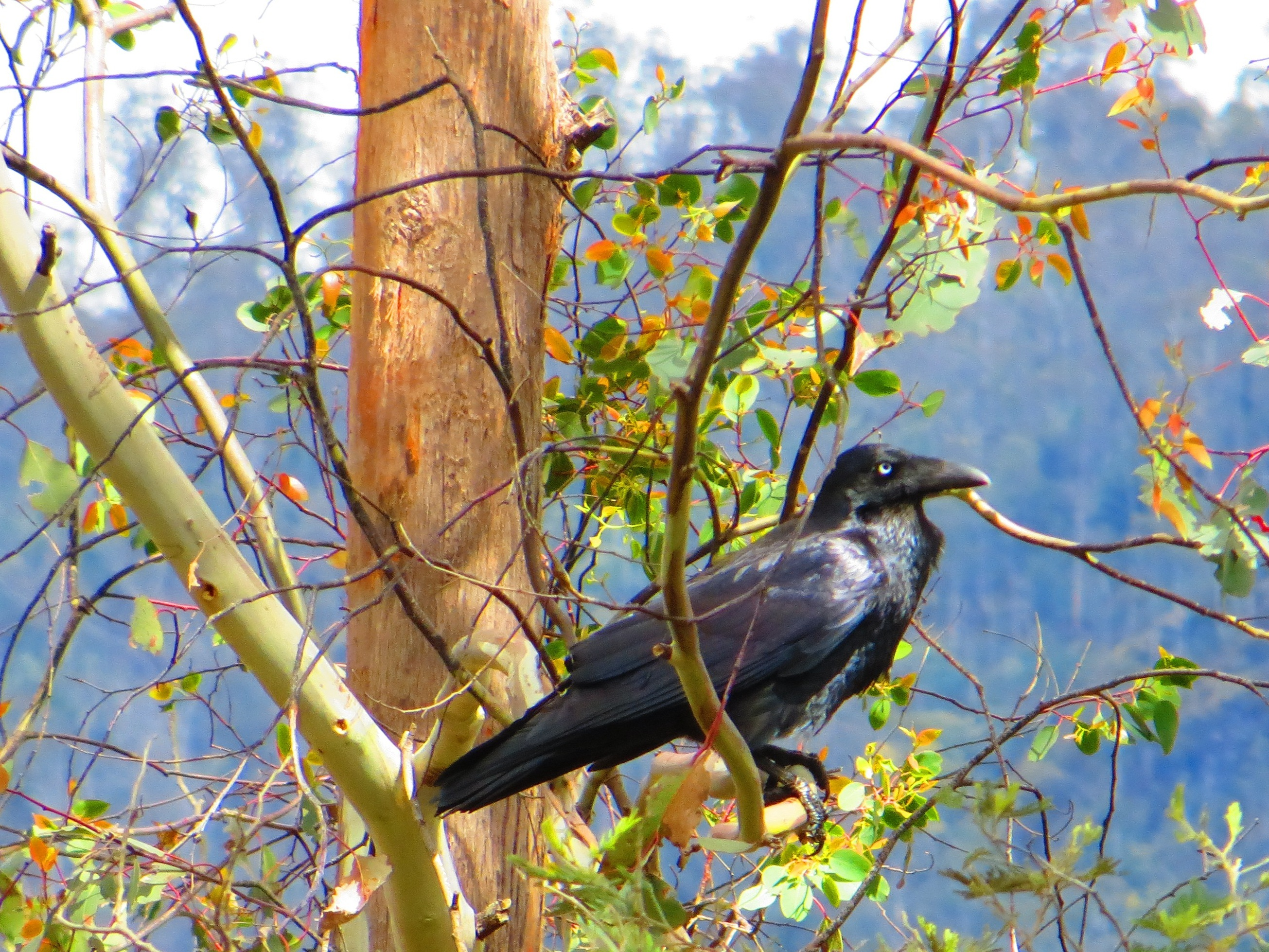 Forest raven (Corvus tasmanicus), Mole Creek, Tasmania, Australia